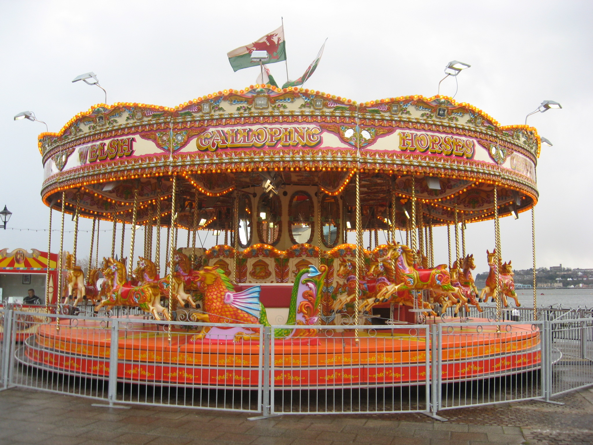 Carousel near the Wales Millennium Centre, Cardiff, Wales